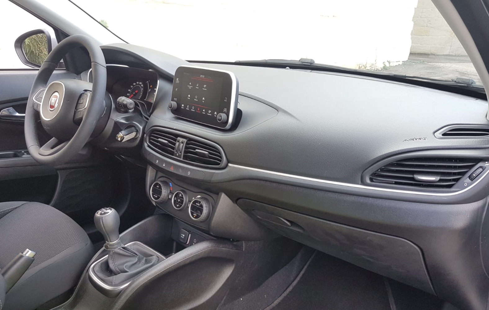 2018 Fiat Tipo SW S-Design interior